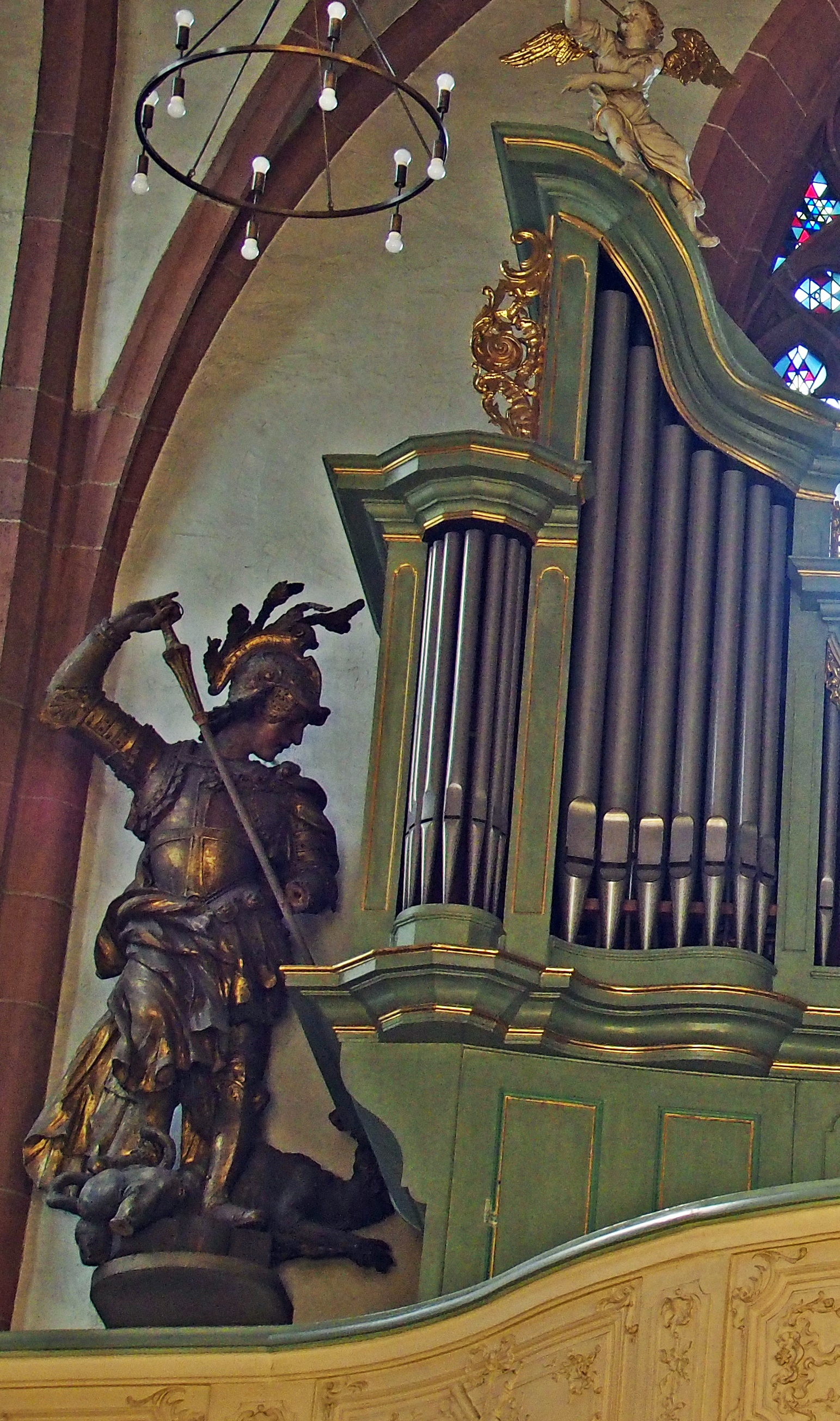 Frankfurter Deutschordenskirche, Orgelempore, St Georg von Cornelius Andreas Donett (+ 1748)